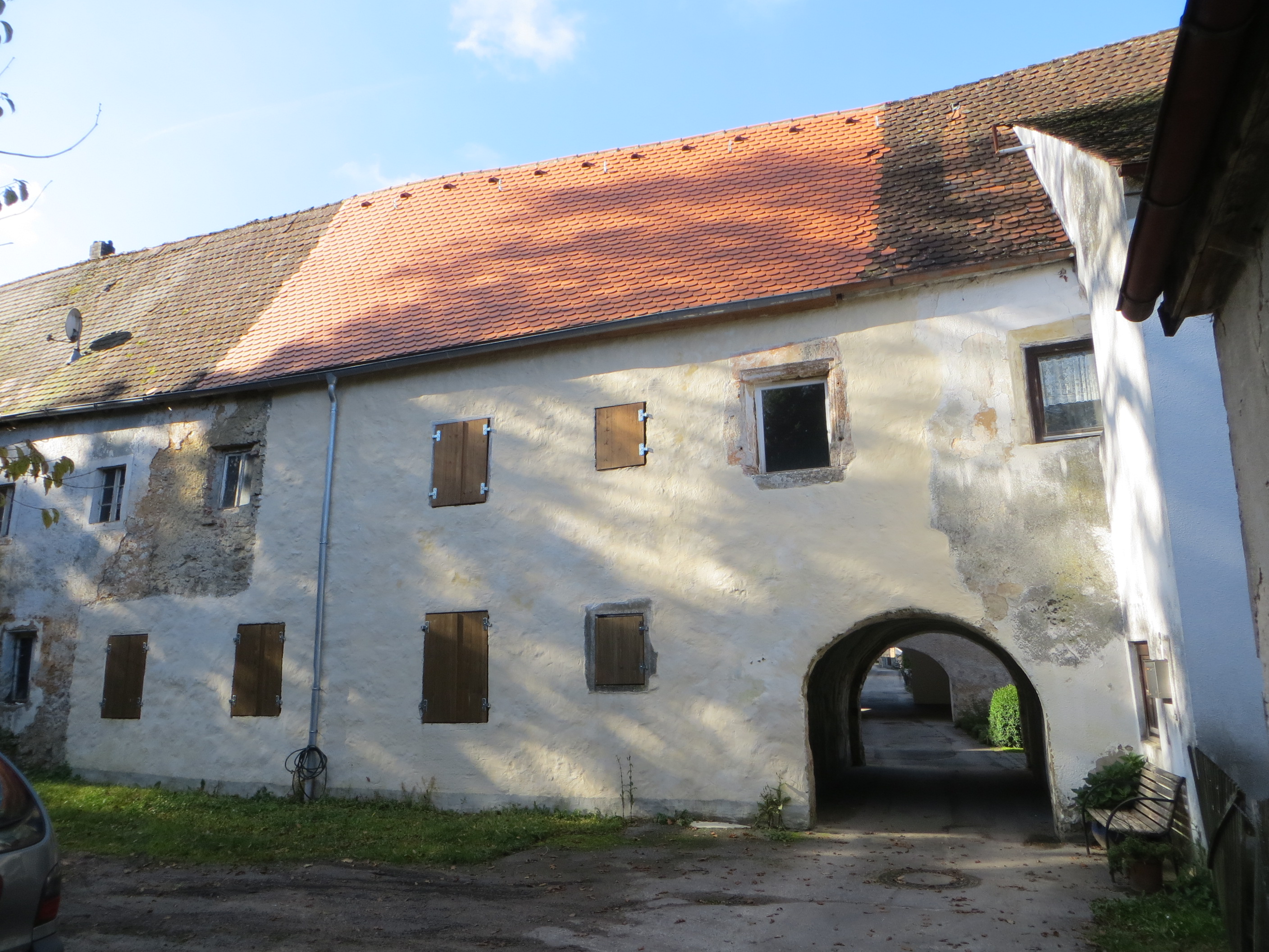 Haunritz Castle